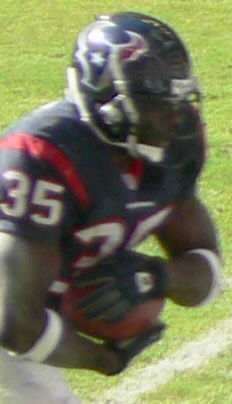 Houston Texans running back Samkon Gado does a rushing play while the offensive line develops a block.